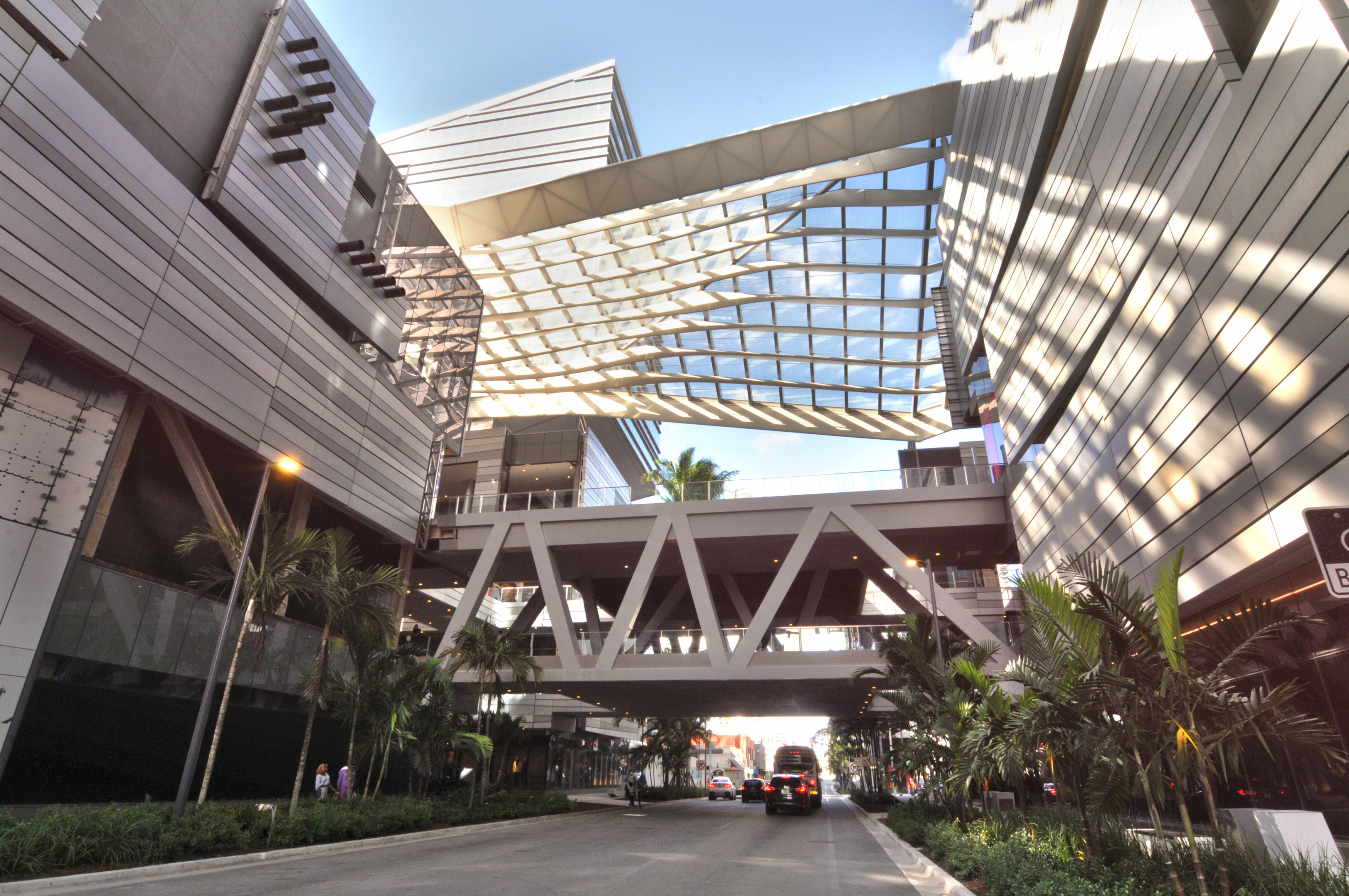 Miami’s largest mixed-use urban development. Photo by © Monica Grigorescu